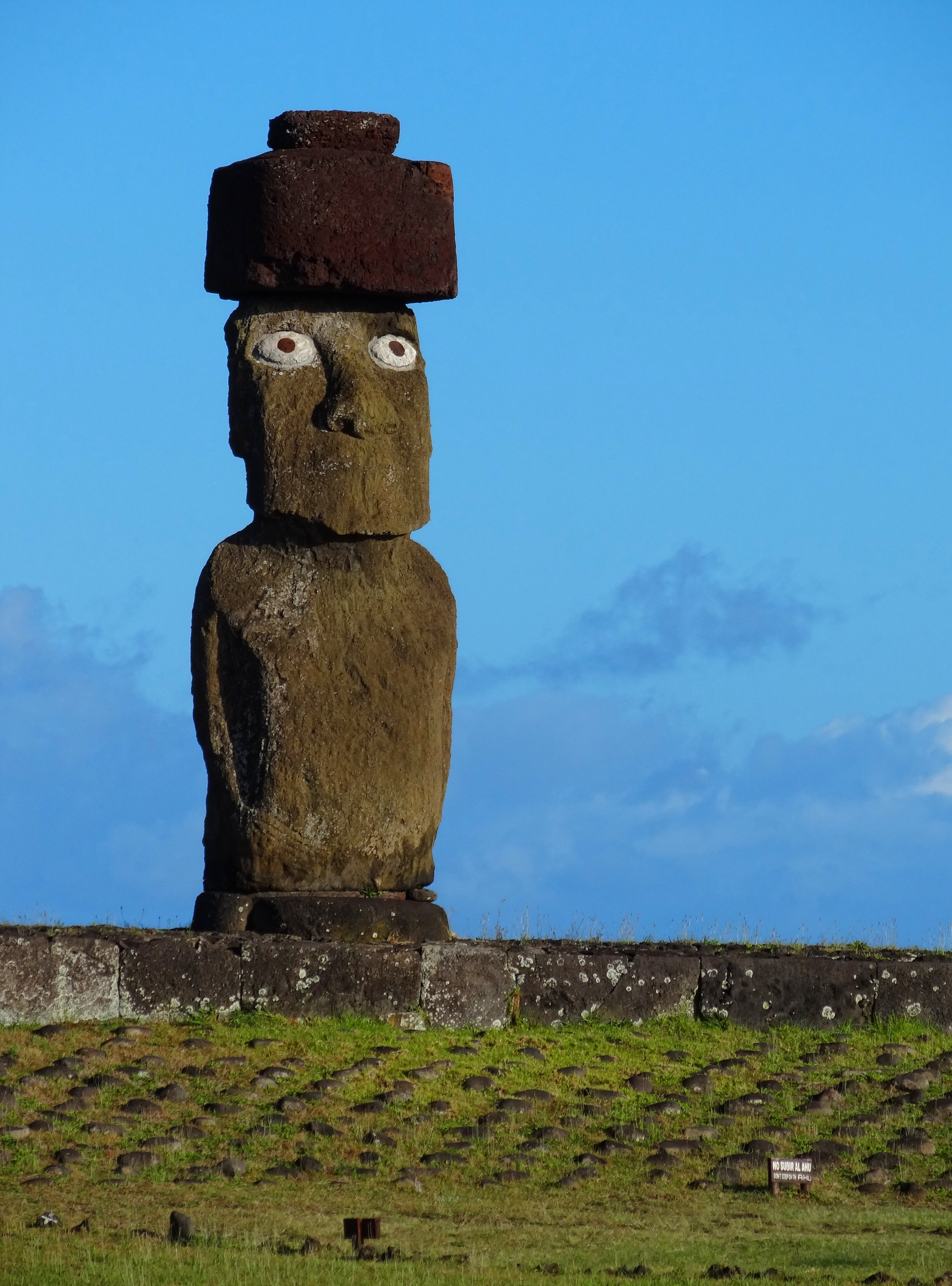 Ahu Ko Te Riku is the only moai on Easter Island that has had its eyes restored to how they probably originally appeared.